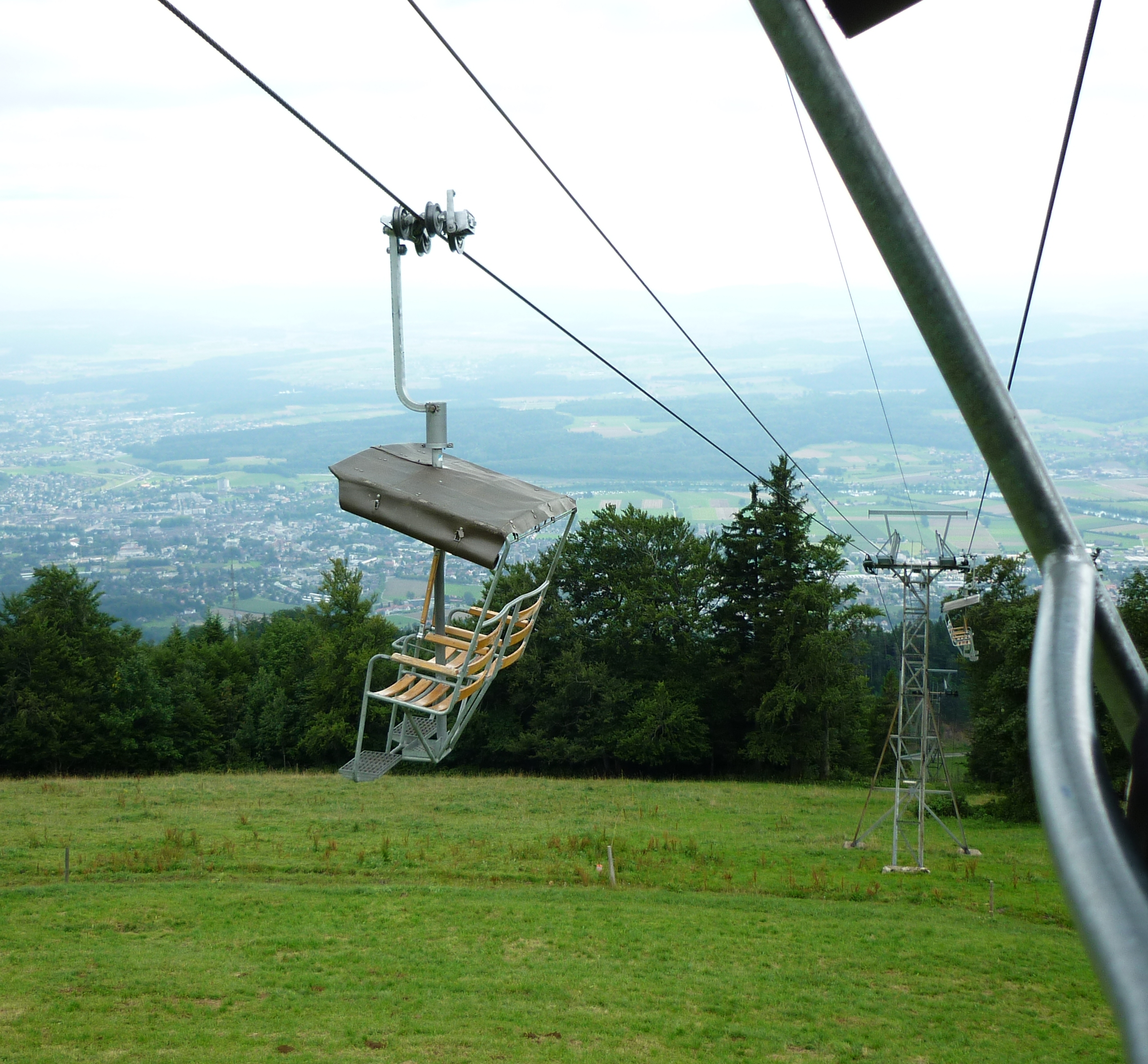 Chairlift Weissenstein. From Oberdorf through Nesselboden to Weissenstein mountain SO, Switzerland